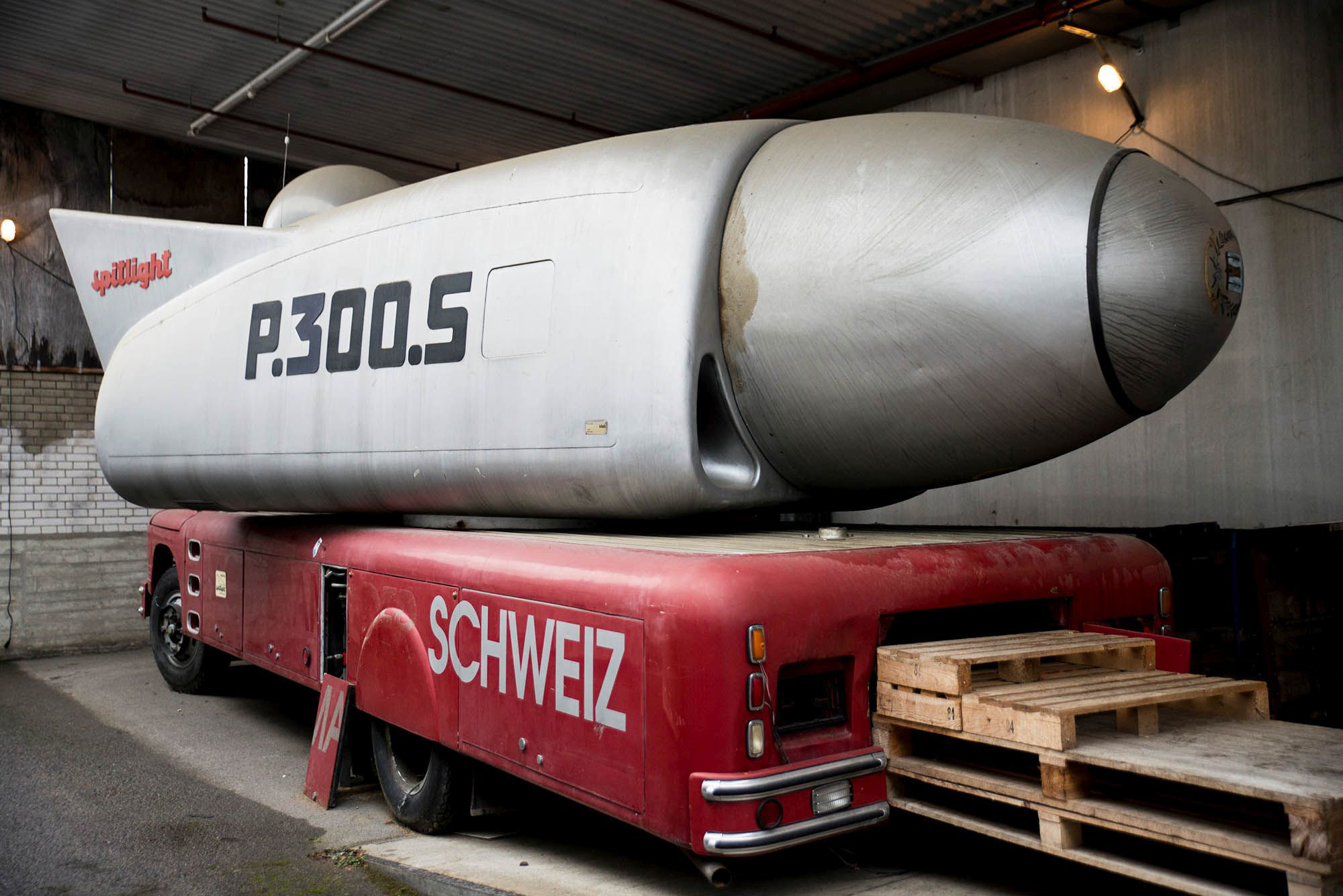 An outdoor projector invented and built by the Swiss engineer Gianni Andreoli (1919-1971)